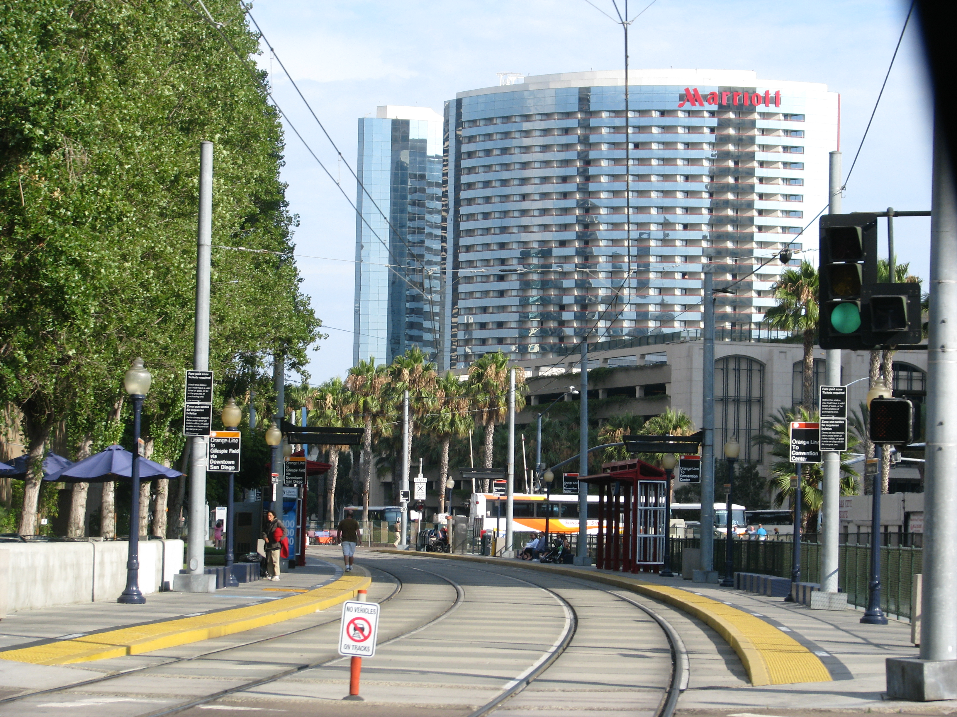 Seaport Village Trolley Station in San Diego, CA